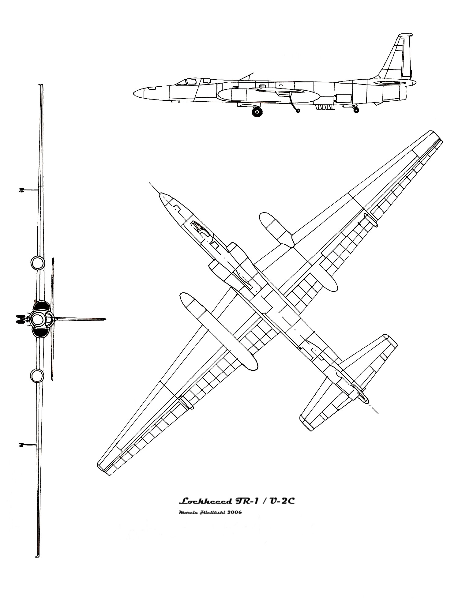 A 3-view drawing ofLockheed TR-1/U-2C.